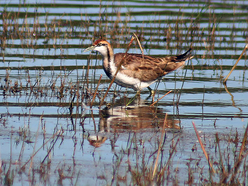 Pheasant-tailed Jacana Hydrophasianus chirurgus at Bharatpur, Rajasthan, India.